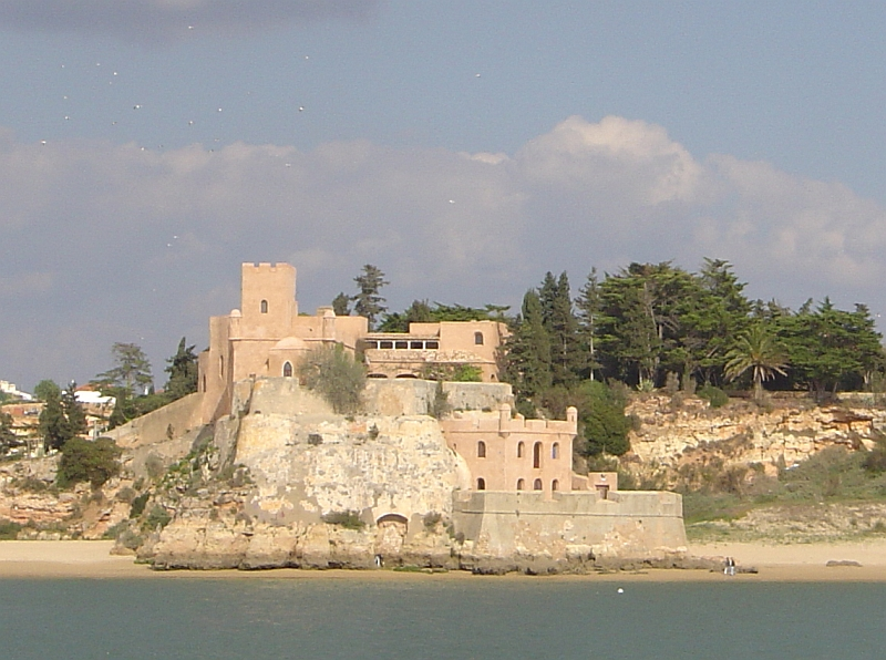 Castle of São João do Arade, Ferragudo, Algarve, Portugal